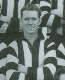 Photo of Ron Dean in 1942